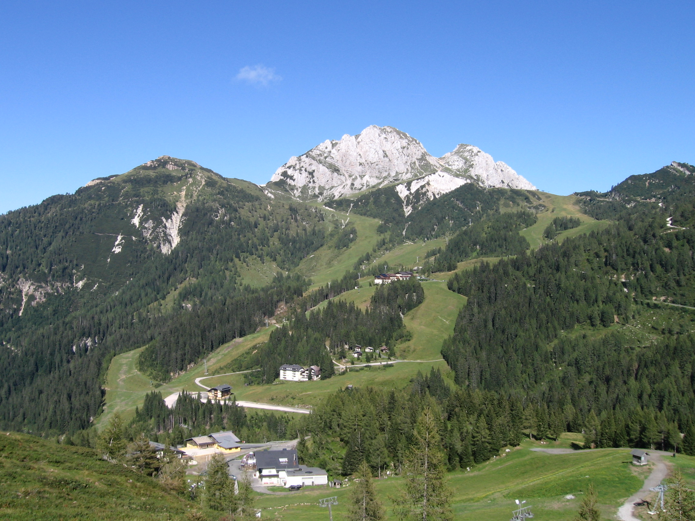 Grassy slopes of Nassfeld pass, with Gartnerkofel in the background, on the austro-italian border.